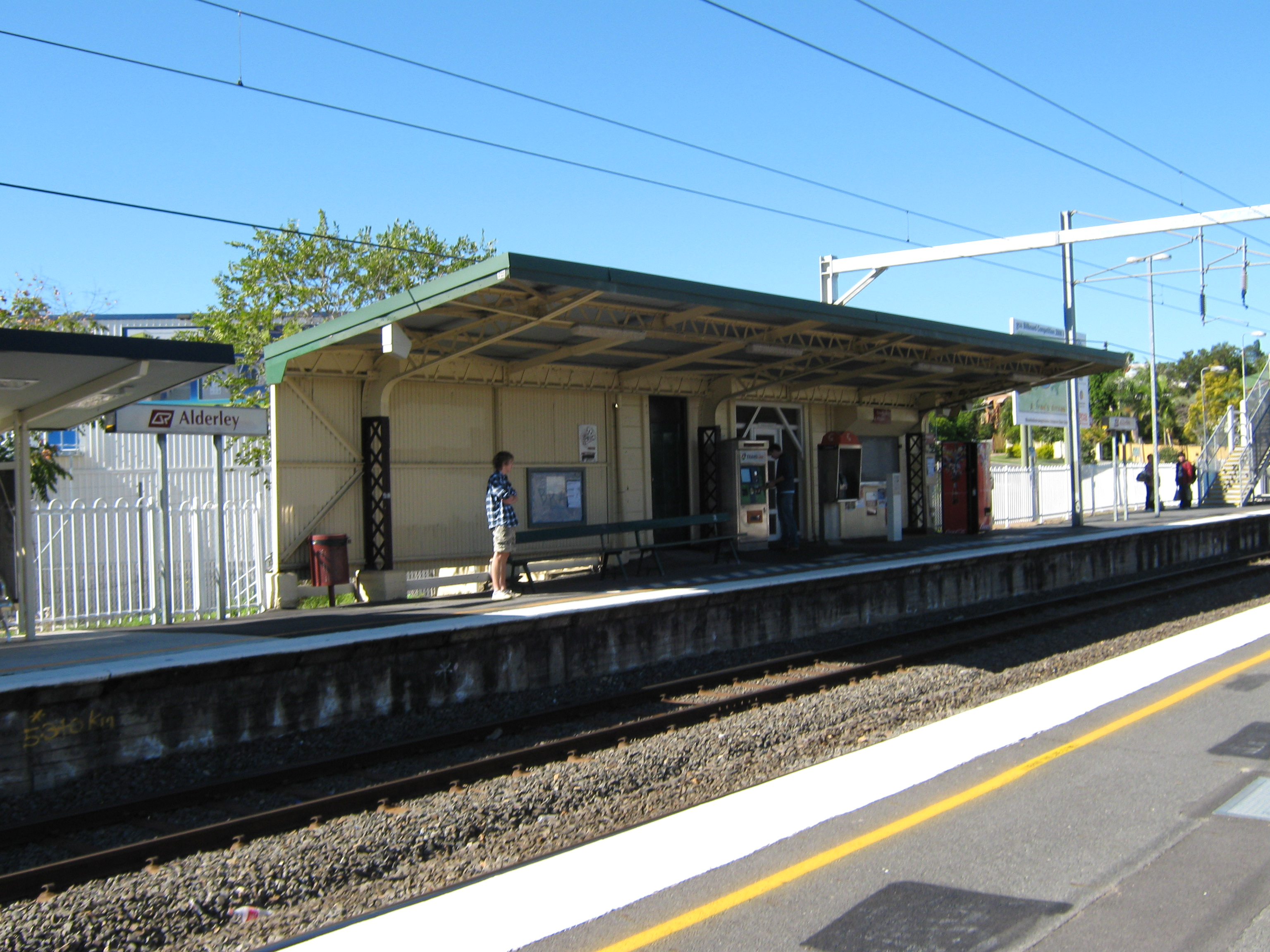 Alderley Railway Station, Queensland.